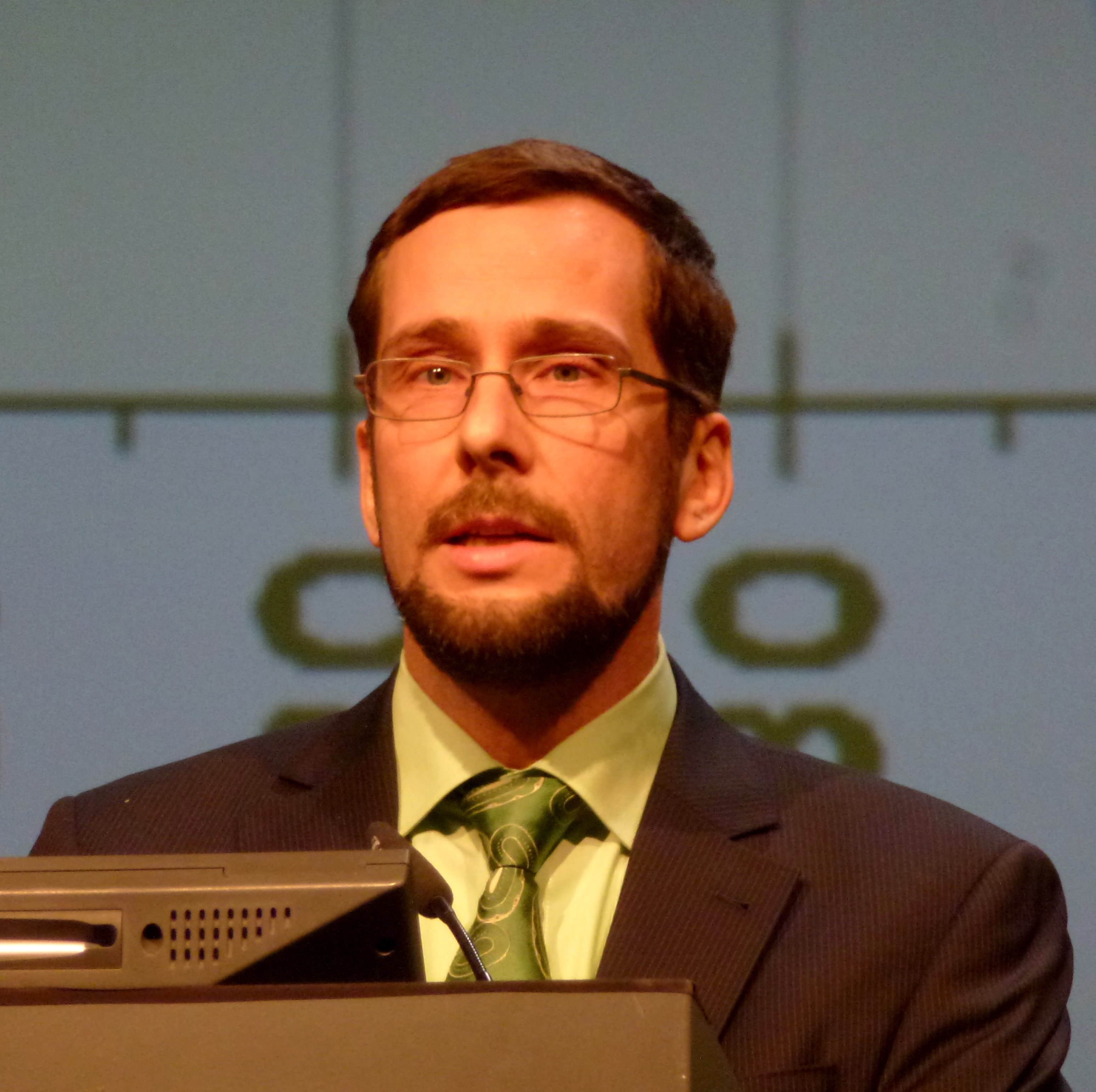 Volker Quaschning at the Energy Storage Summit Düsseldorf